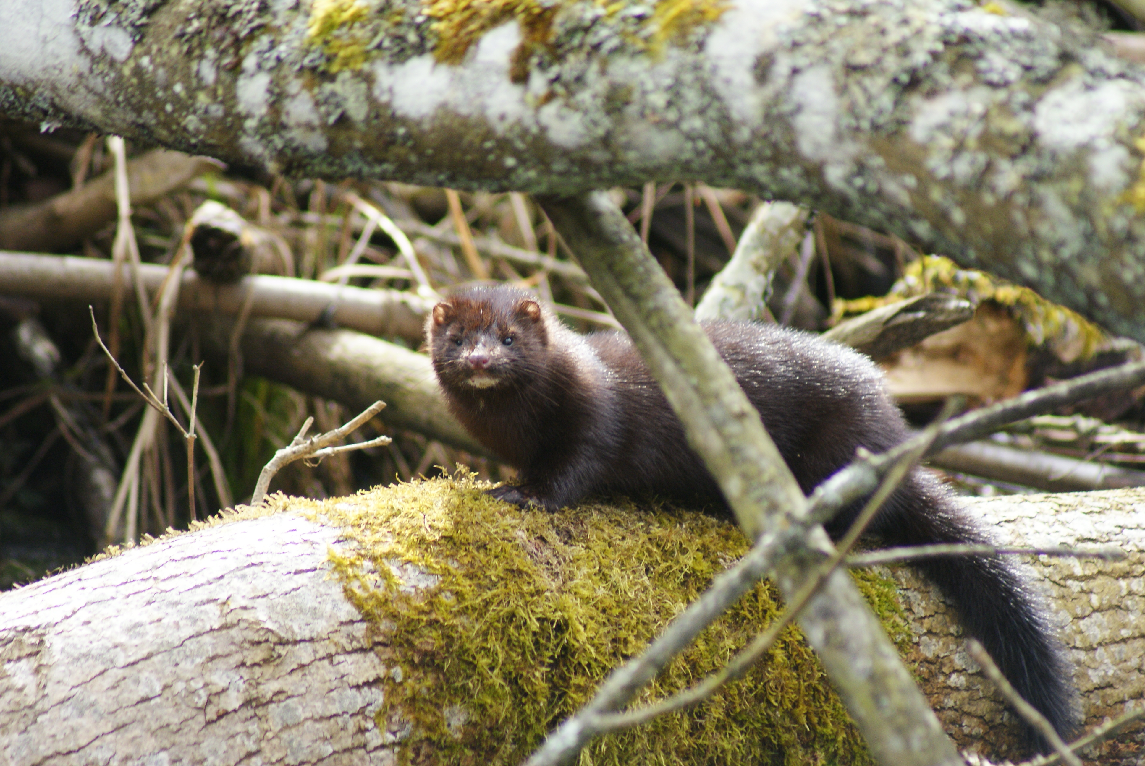 Neovison vison, Białowieża Forest